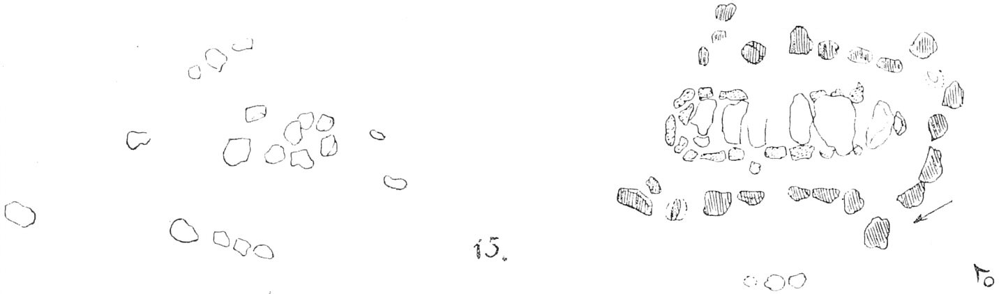 Outline of the dolmen Kläden, Saxony-Anhalt